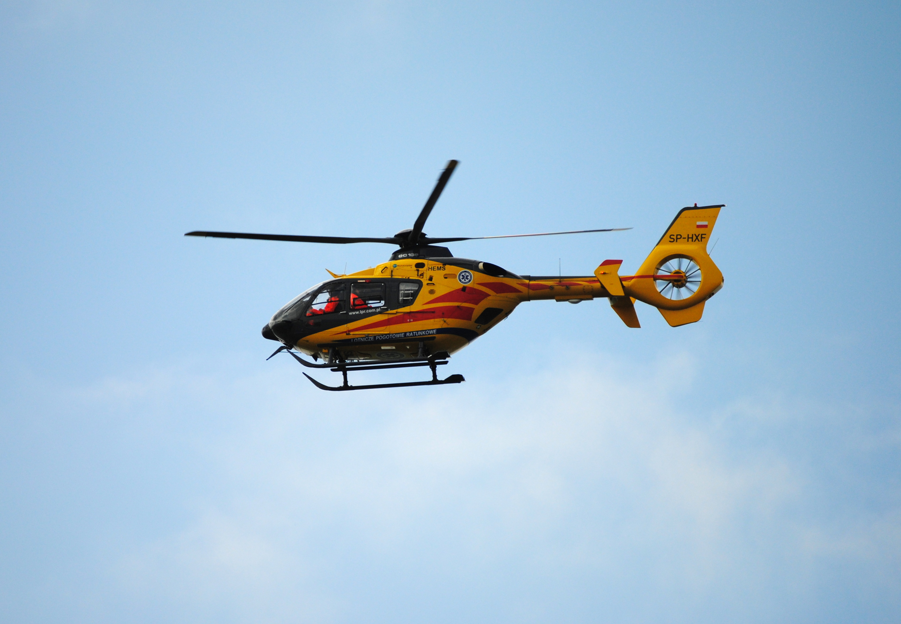 SP-HXF - Eurocopter EC135P2 of the Polish Lotnicze Pogotowie Ratunkowe (Polish Air Rescue)